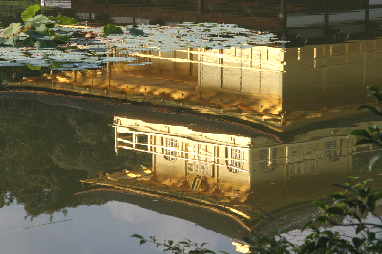 Kinkaku Temple - In 1397 construction started on the Golden Pavilion as part of a new residence for the retired shogun Ashikaga Yoshimitsu. Kinkaku Temple